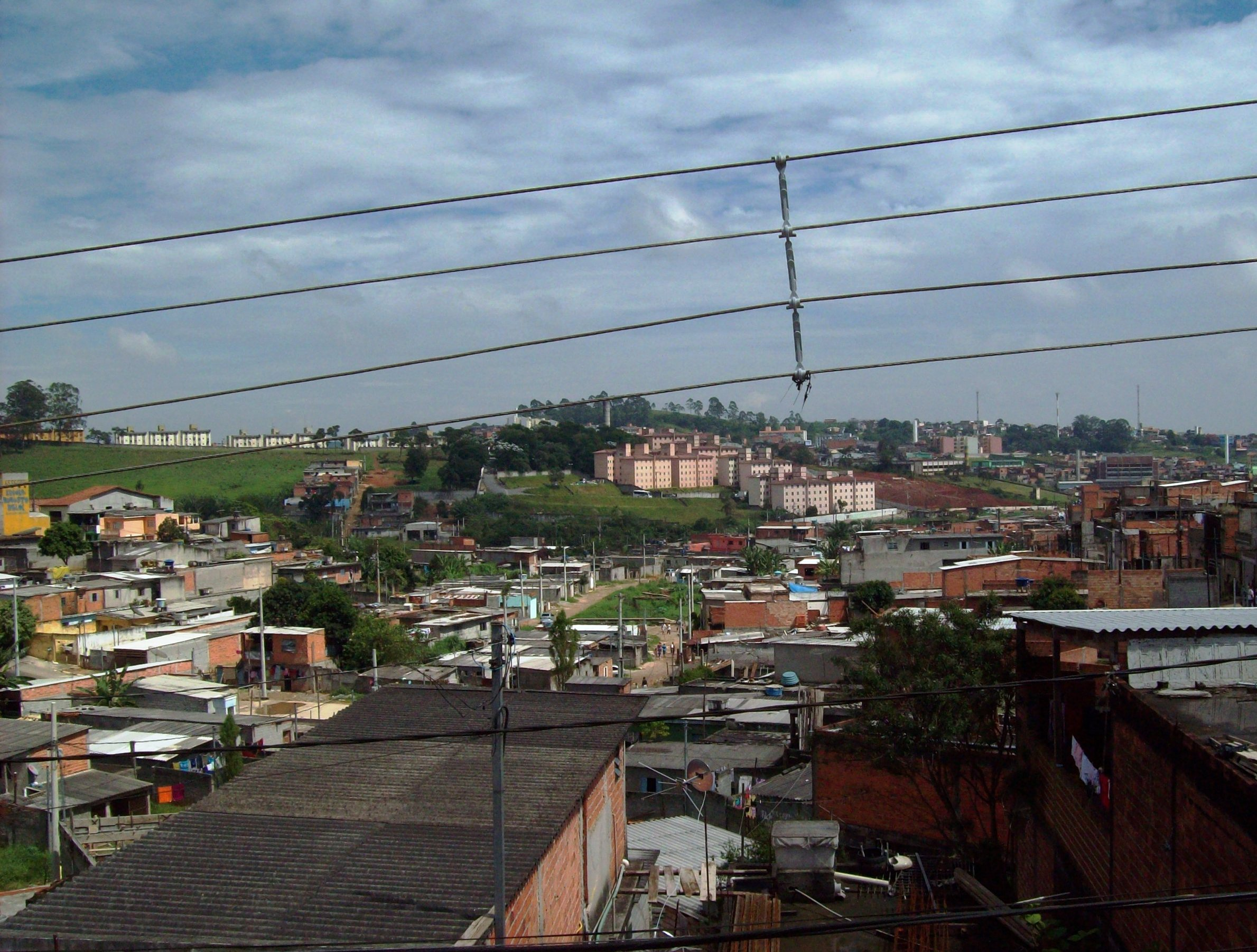 This image is Free for Everybody.